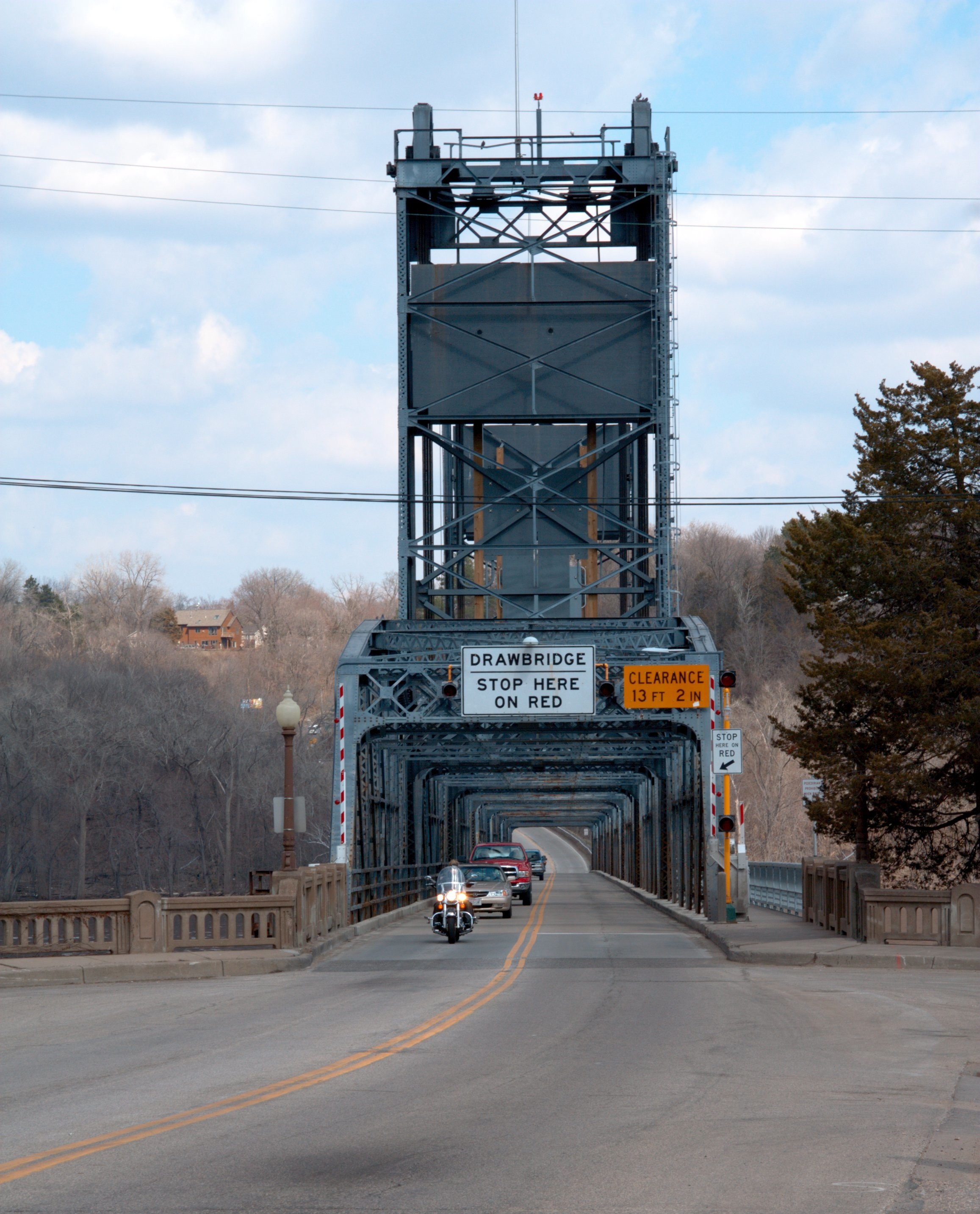 The Stillwater Bridge, over the St. Croix River, in Stillwater, Minnesota, is a 1931 vertical-lift bridge listed on the U.S. National Register of Historic Places. This view is looking east, showing the bridge's west end.